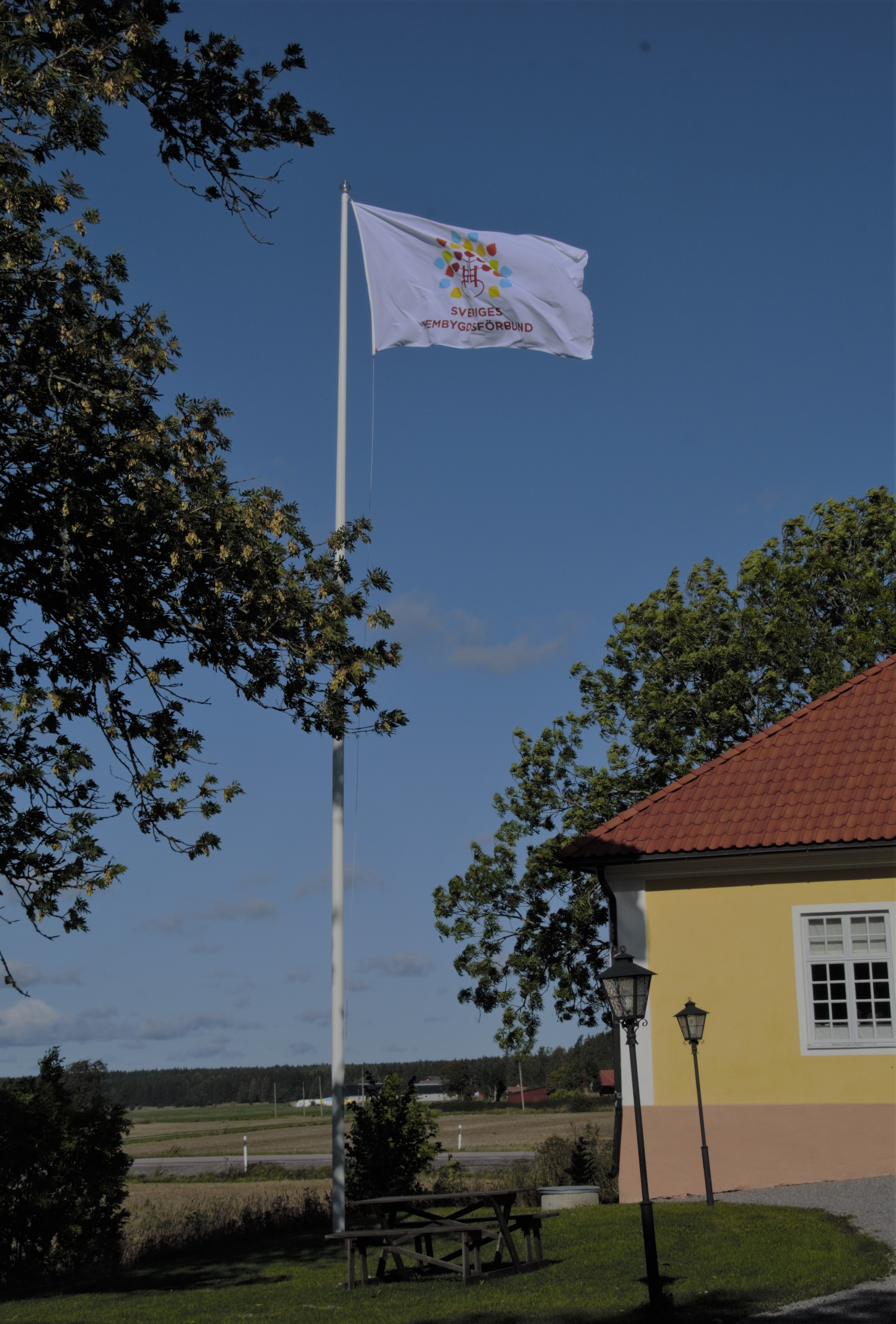 Flag of Sveriges hembygdsförbund, outside Karleby Court House